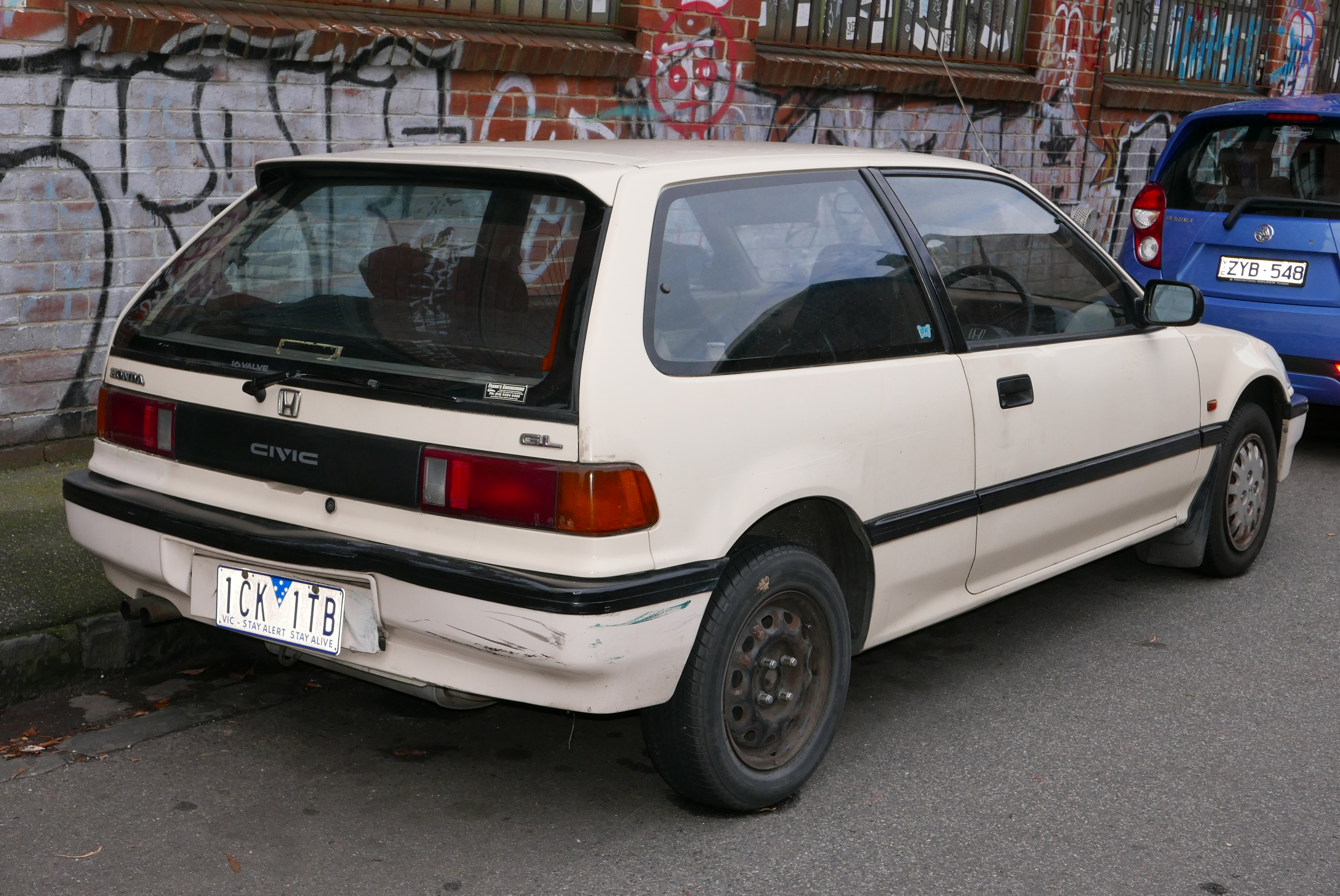 1987 Honda Civic GL hatchback. Photographed in Fitzroy, Victoria, Australia. Vehicle registration enquiry results Jurisdiction Victoria Registration 1CK1TB Chassis code JHMED64300S001856 Engine code D15B41001129 Compliance date 1988-01 Year of manufacture 1987 (not a typo)